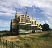 A House for Essex, designed by Grayson Perry in Wrabness, Essex, United Kingdom.